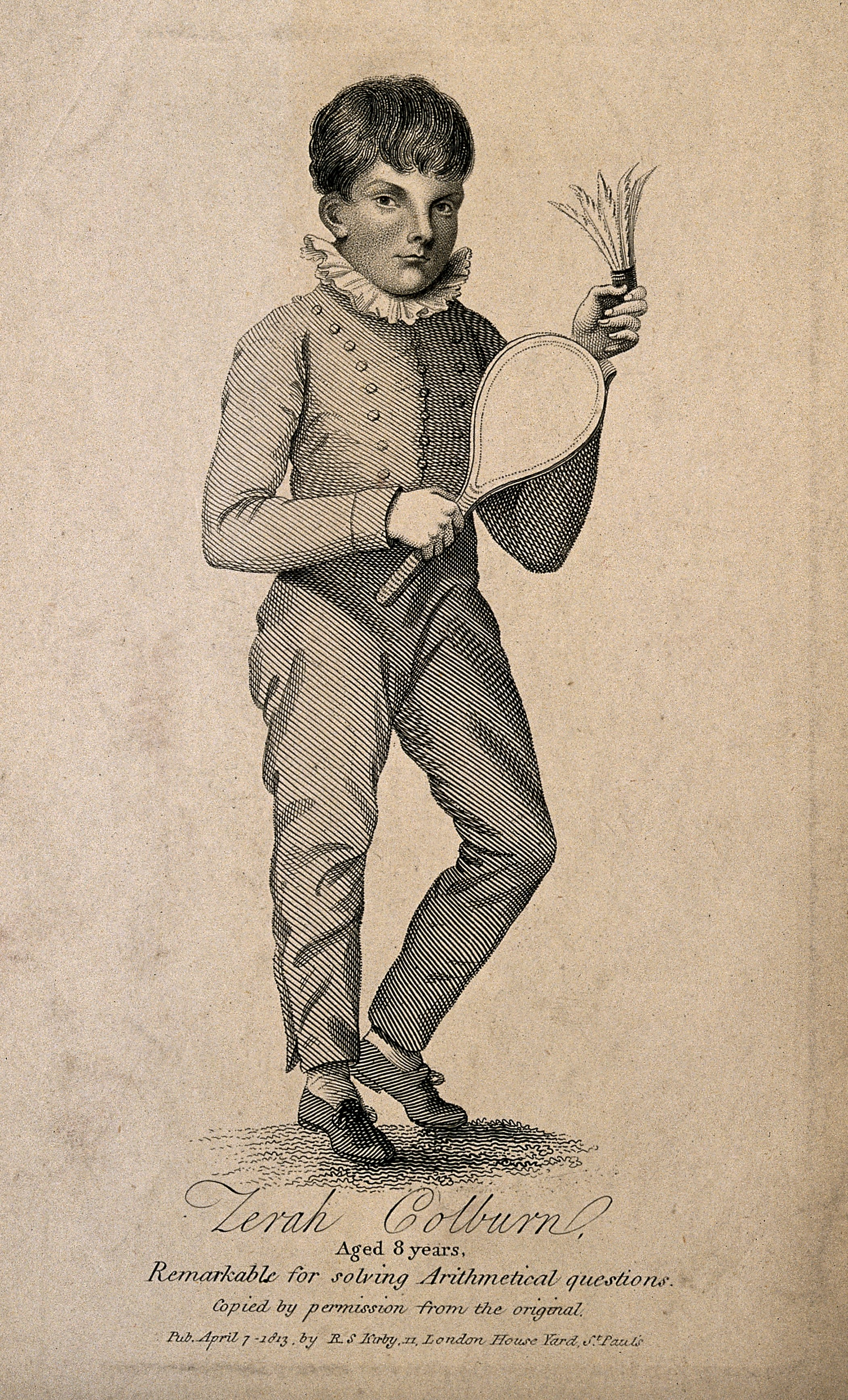 Zerah Colburn, a mental calculator, as a child. Engraving, 1813. Iconographic Collections Keywords: engravings; colburn, zerah, 1804-1840; portrait prints; Zerah Colburn; mental calculators; gifted children